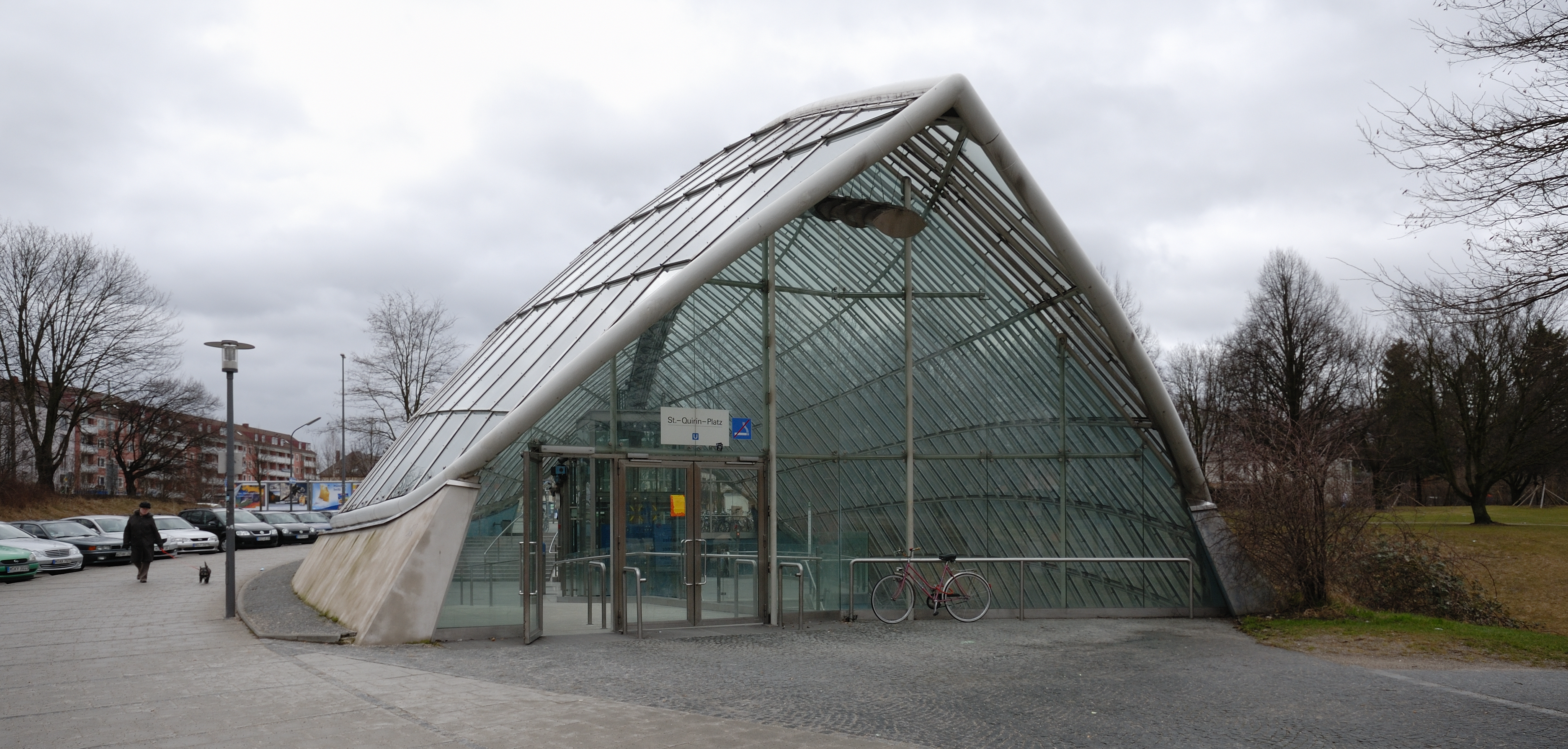 St.-Quirin-Platz station of Munich U-Bahn.